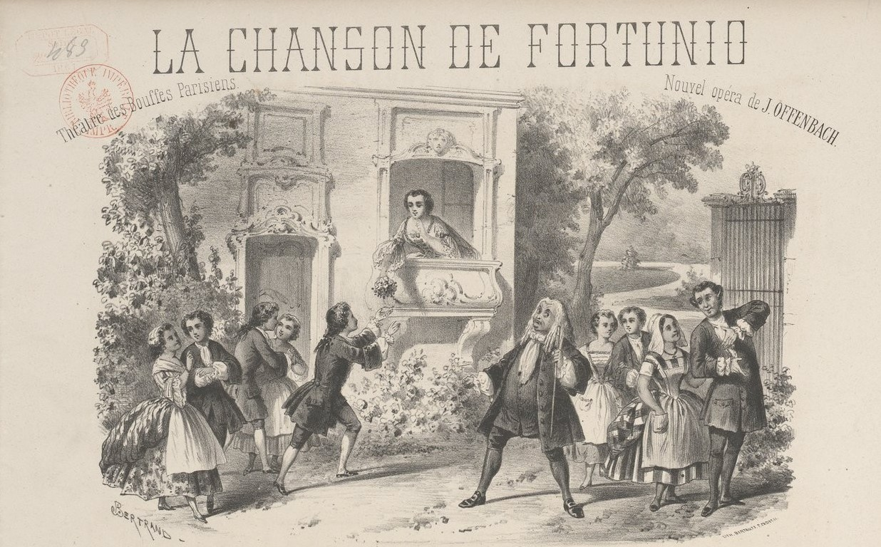 Engraving by Bertrand representing a scene from Jacques Offenbach's opéra-comique "La chanson de Fortunio", from the title page of the partition of a quadrille arranged by Isaac Strauss from motives from that opera